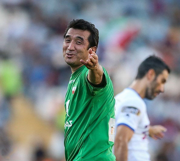 Khodadad Azizi, a member of Iranian Stars football Team playing against World Stars Football Team in Azadi Stadium.